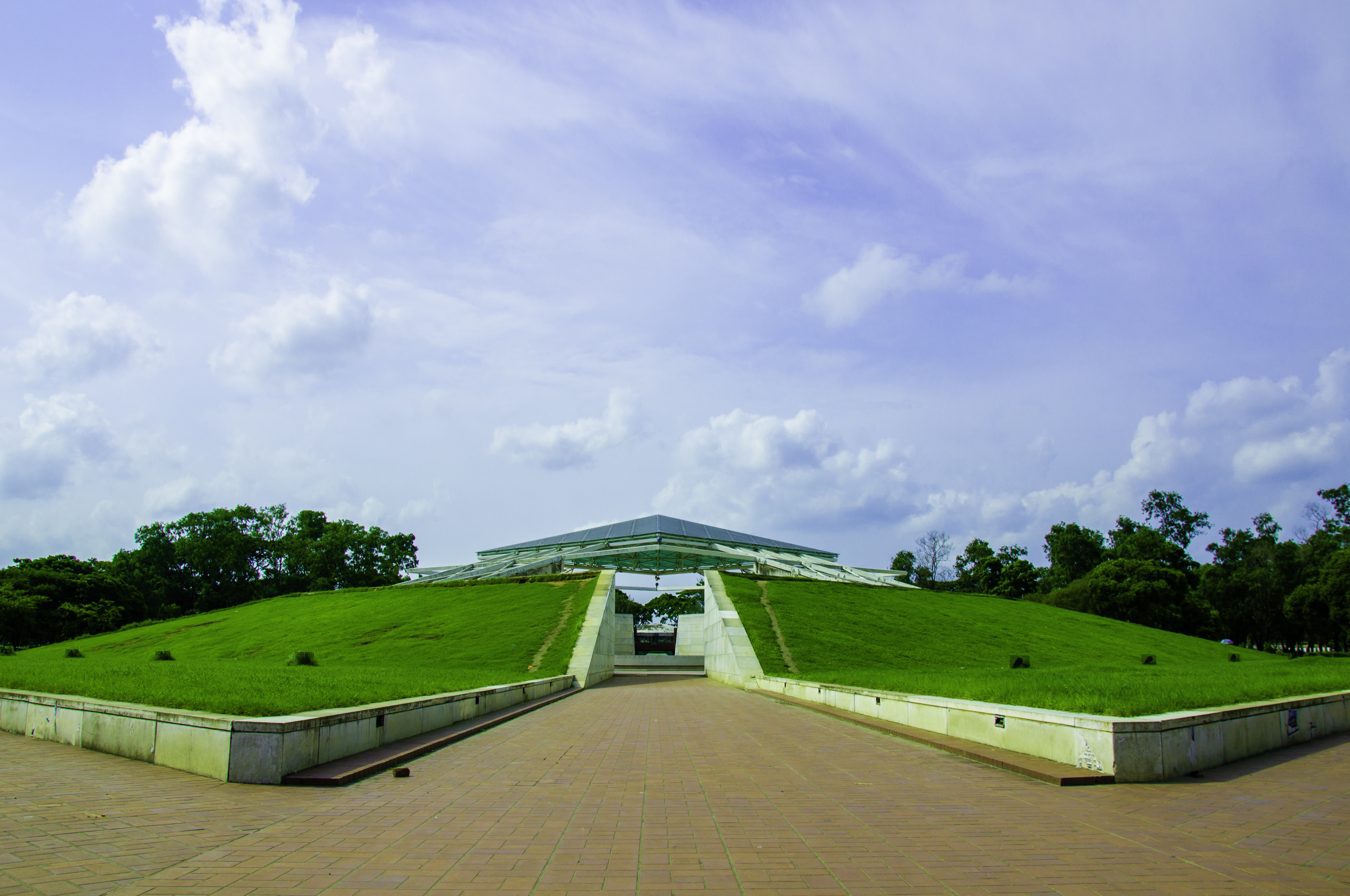 Mausoleum of late Bangladeshi President Ziaur Rahman at Chandrima Uddan in Dhaka.